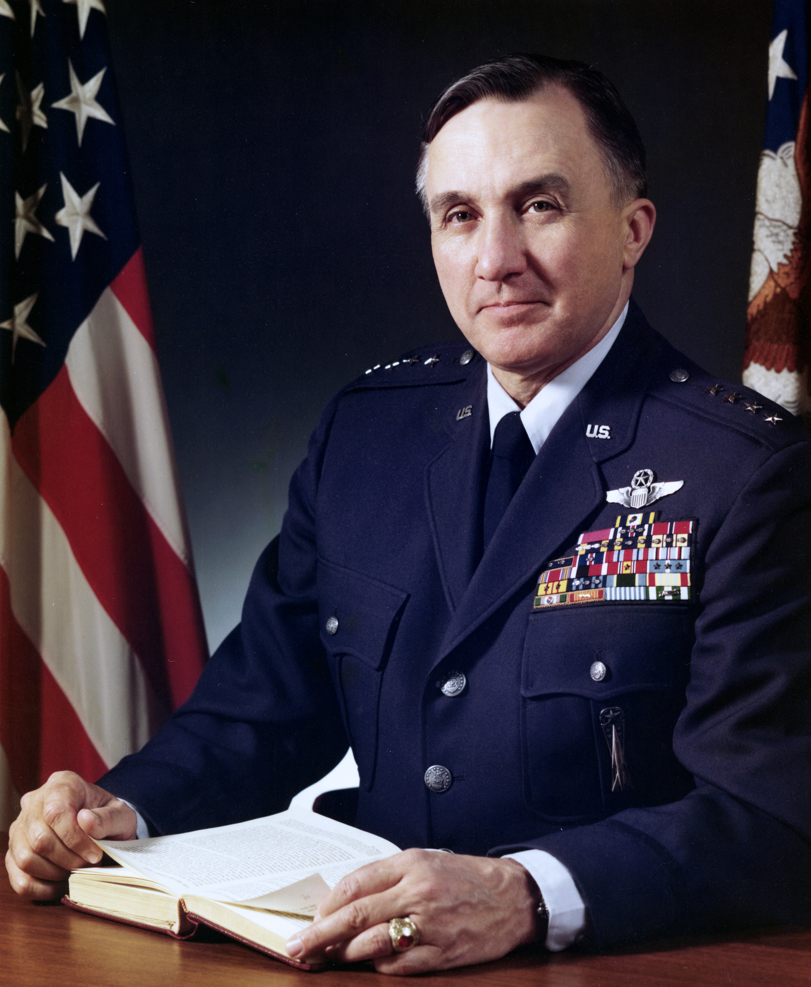 GEN Bryce Poe II, USAF